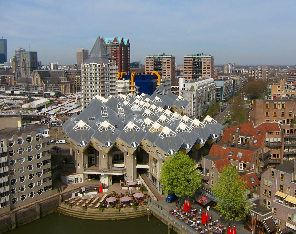 Cube Houses in Rotterdam seen from the Oude Haven